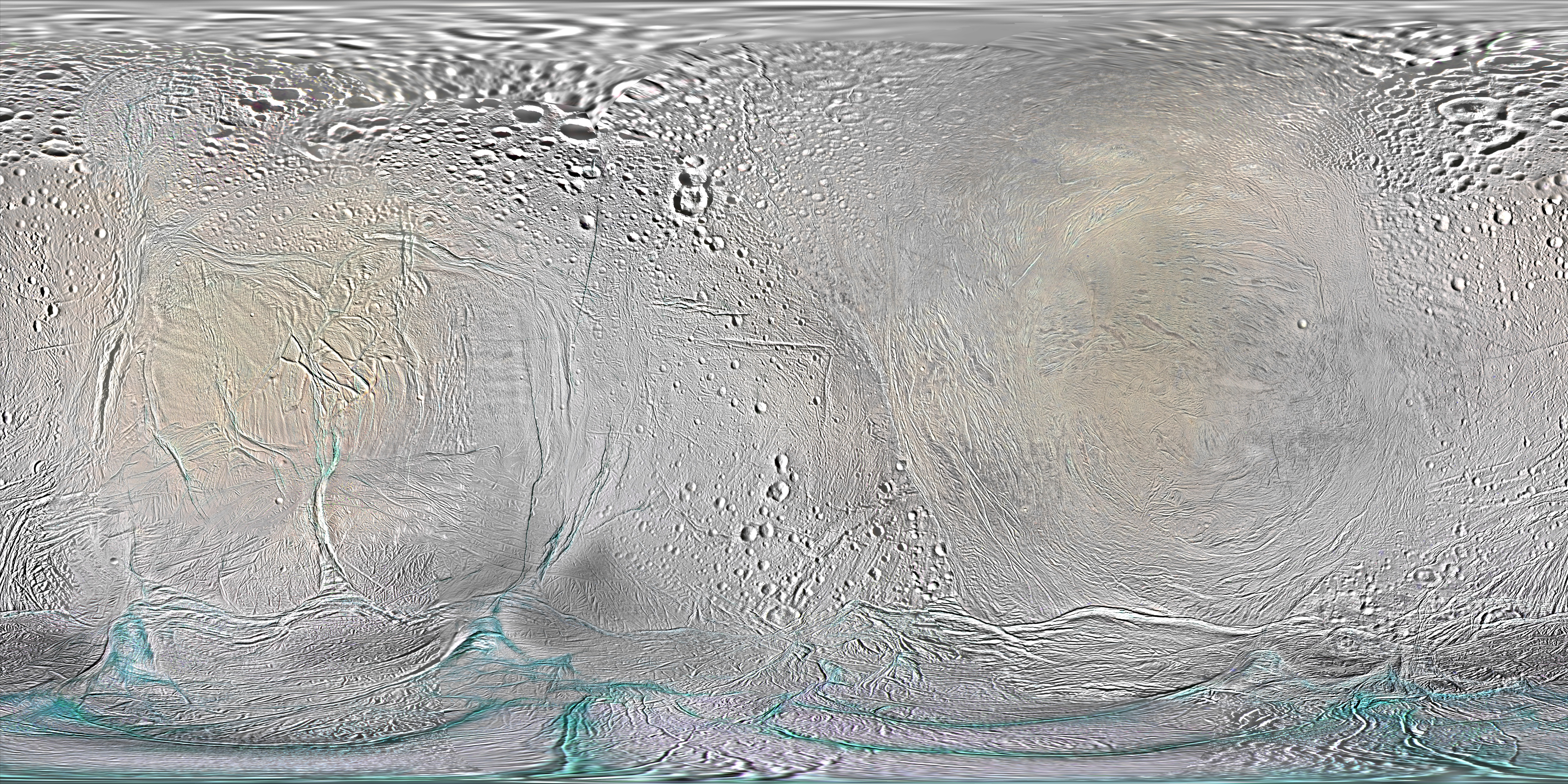 This set of global, color mosaics of Saturn's moon Enceladus was produced from images taken by NASA's Cassini spacecraft during its first ten years exploring the Saturn system (2004—2014). The image is centered on meridian 180°. Original image was reduced in size 3 times (a version for using in positional maps). Color saturation was diminished for approaching real almost white color of the satellite. The brightness is increased.